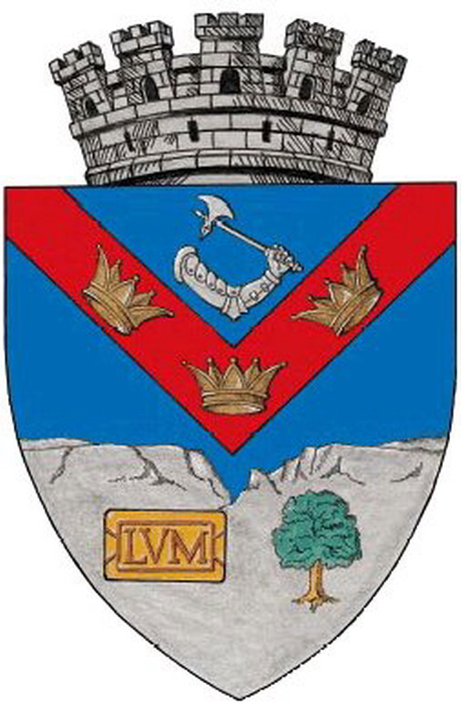 Coat of Arms of Turda City, Romania.